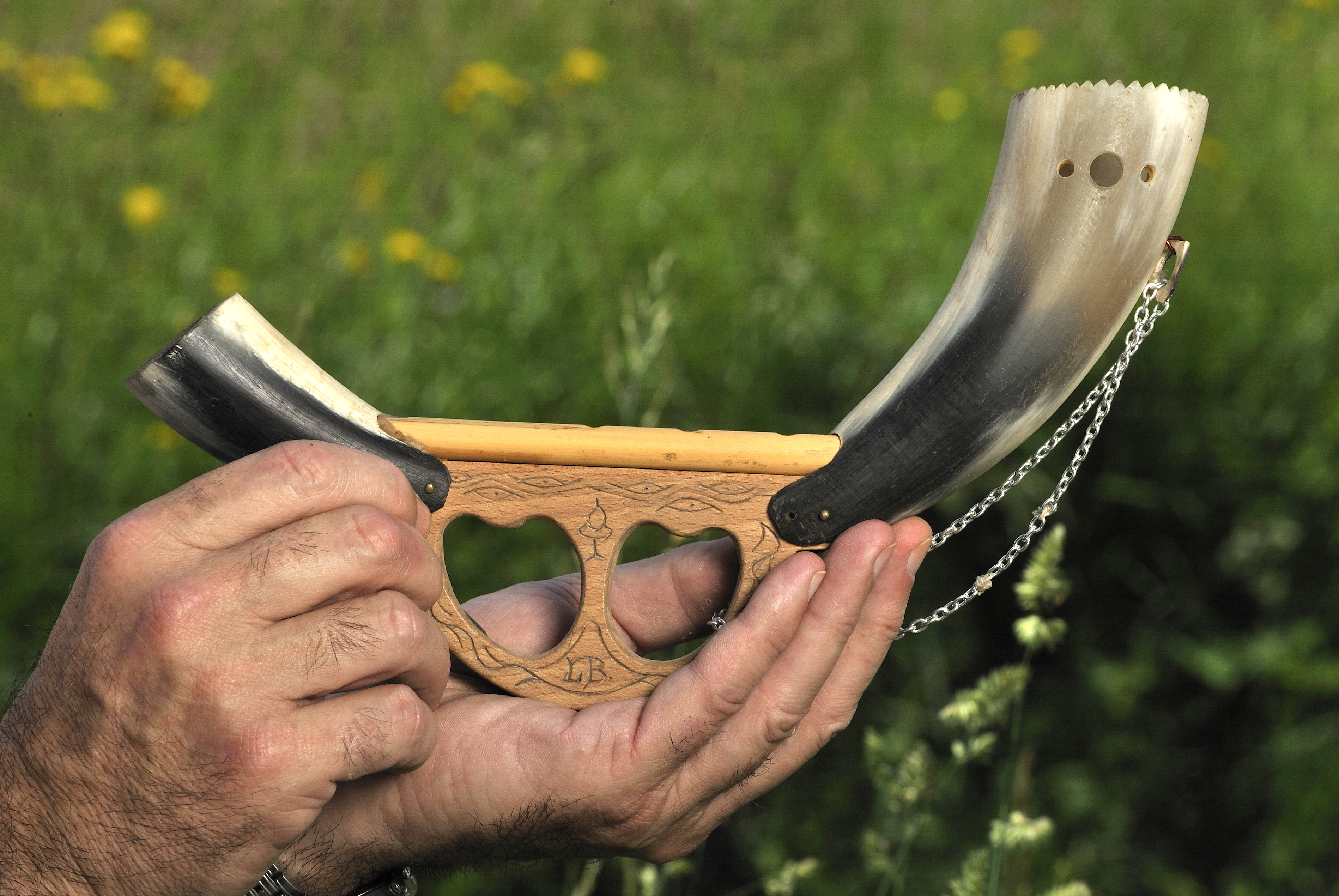 Alboka, basque musical instrument. Basque Country.